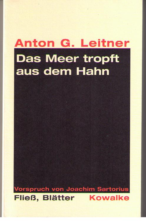 Cover of Anton G. Leitner´s poetry collection titled "Das Meer tropft aus dem Hahn" (2001)